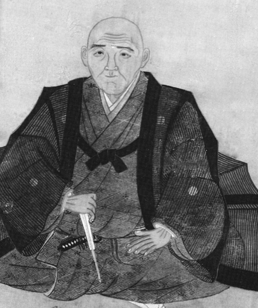 Narabayashi Chinzan (1649-1711), scholar and interpreter at the Dutch trading post Dejima (Nagasaki, Japan). Part of the colored hanging scroll.